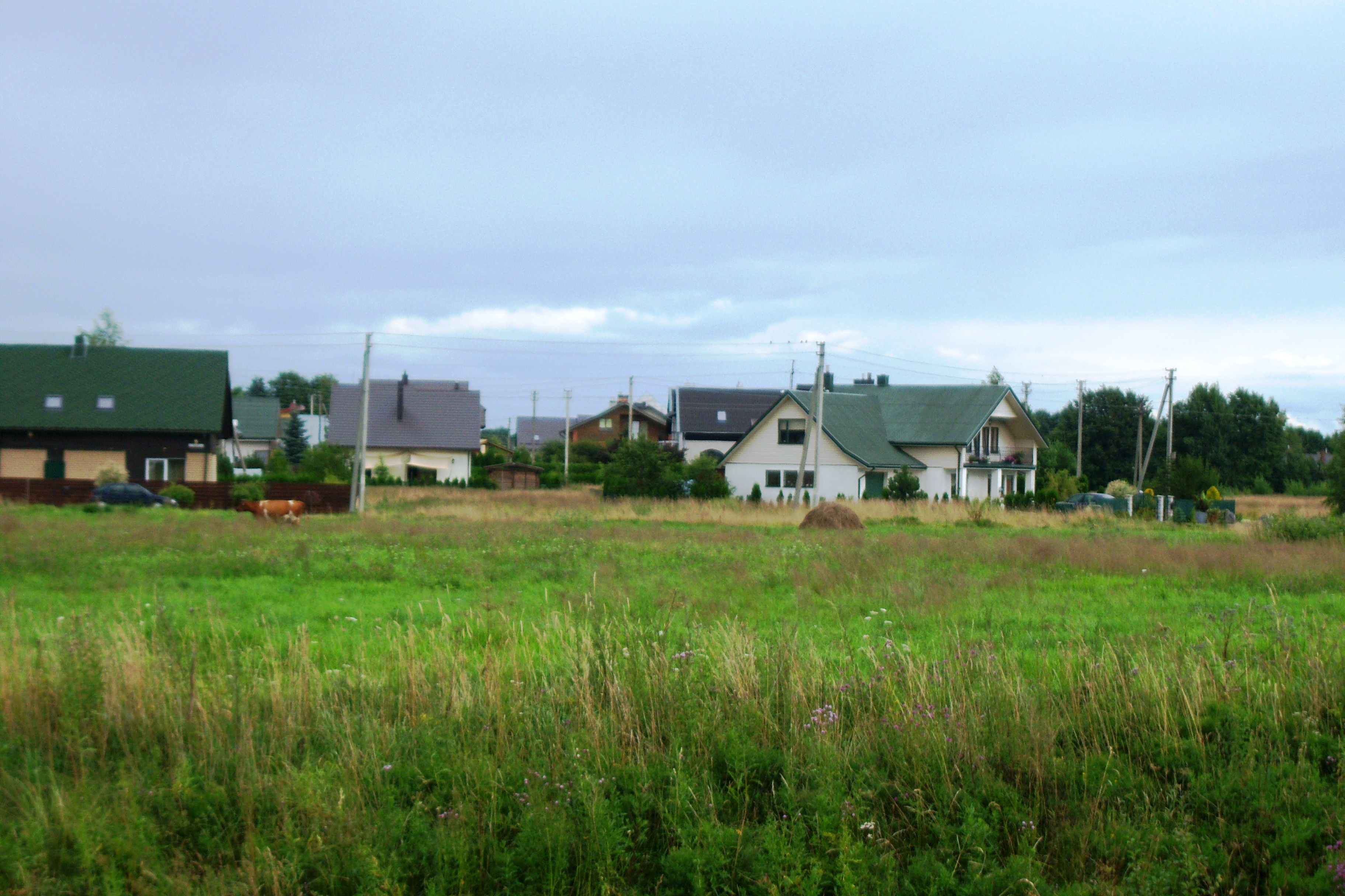 Narsiečiai, Kaunas, Lithuania